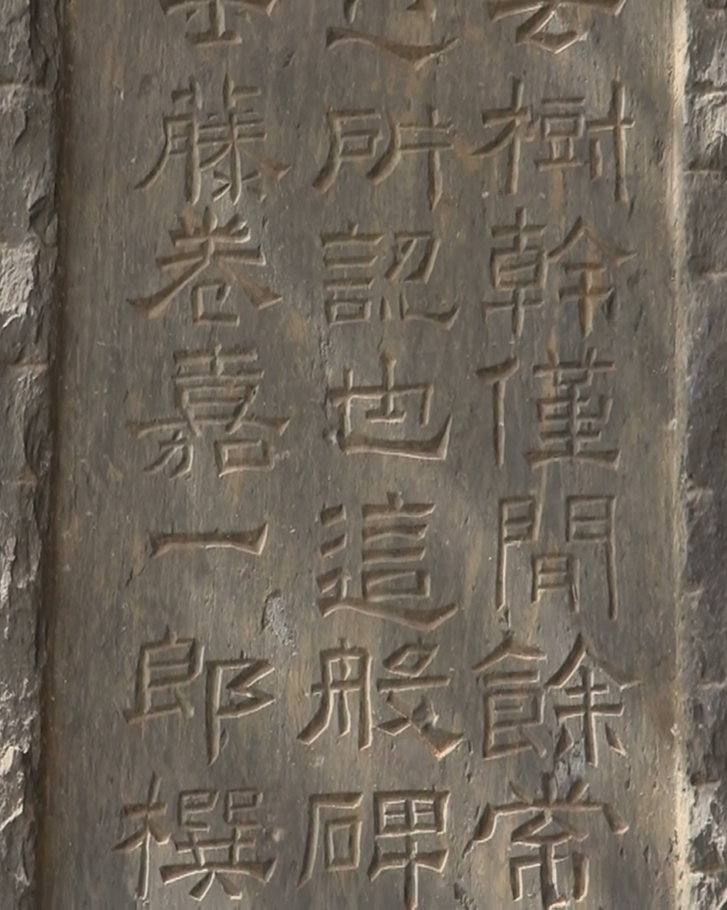 Backside of Shingen-ko Hatakake-matsu pine tree Monument